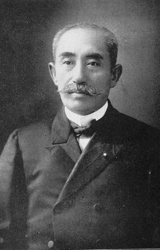 Susumu Sato (Baron)